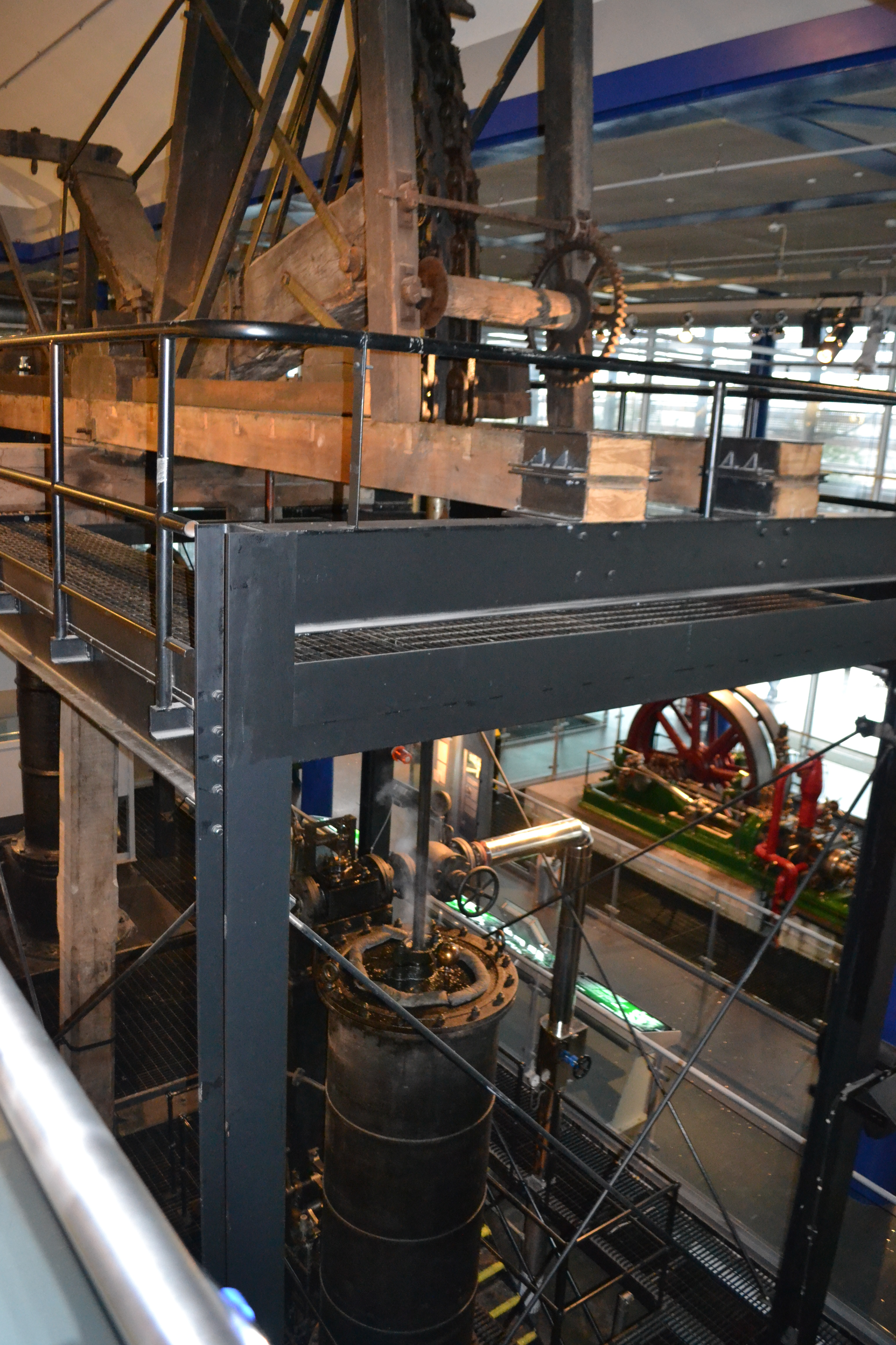 Smethwick Engine - world's oldest engine still in working order. Located at the ThinkTank museum in Birmingham, UK.